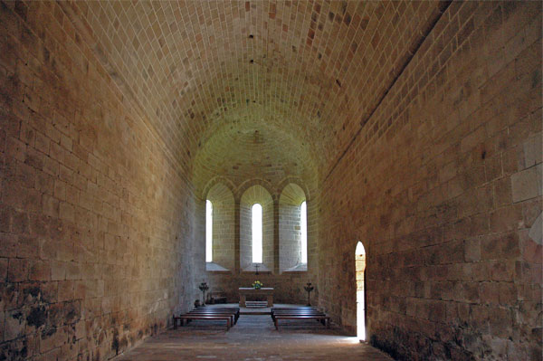 Comberoumal priory. France